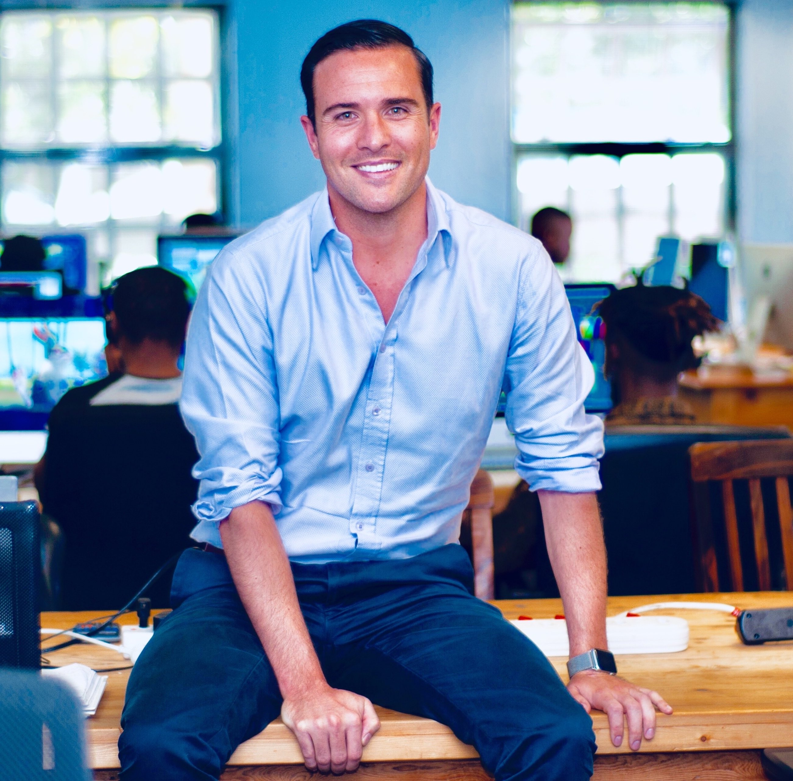 Dr. Corrin Varady with his team in Johannesburg